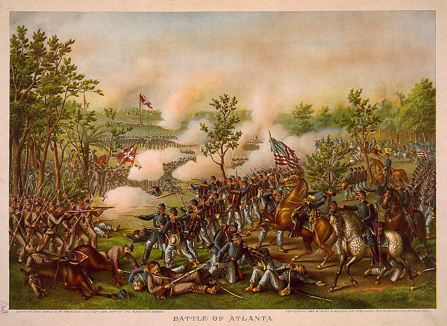 The Battle of Atlanta, chromolithograph by Kurz & Allison, also showing the death of Union general James McPherson.